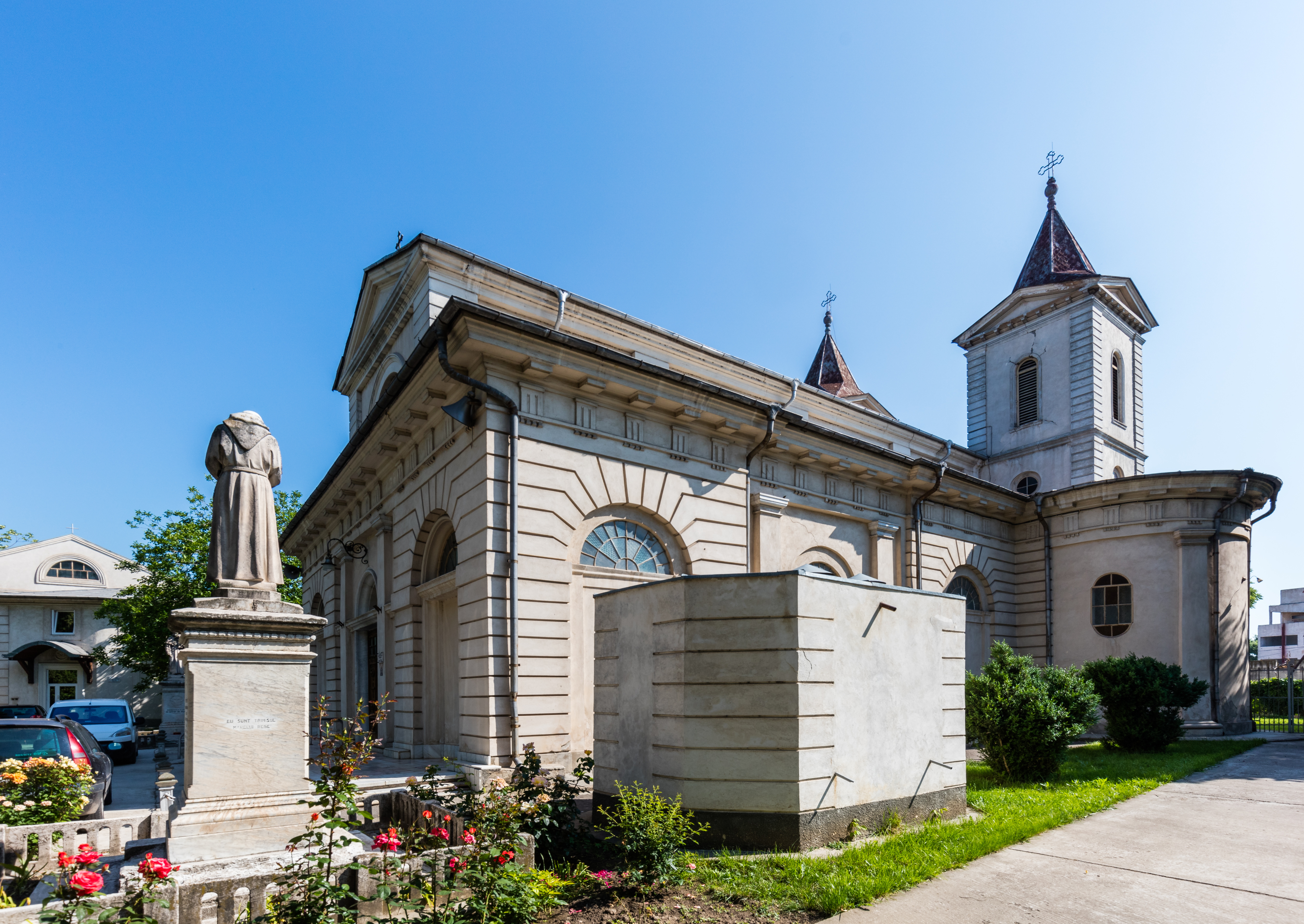 Catholic church, Galati, Romania